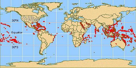 Location of Reef building corals